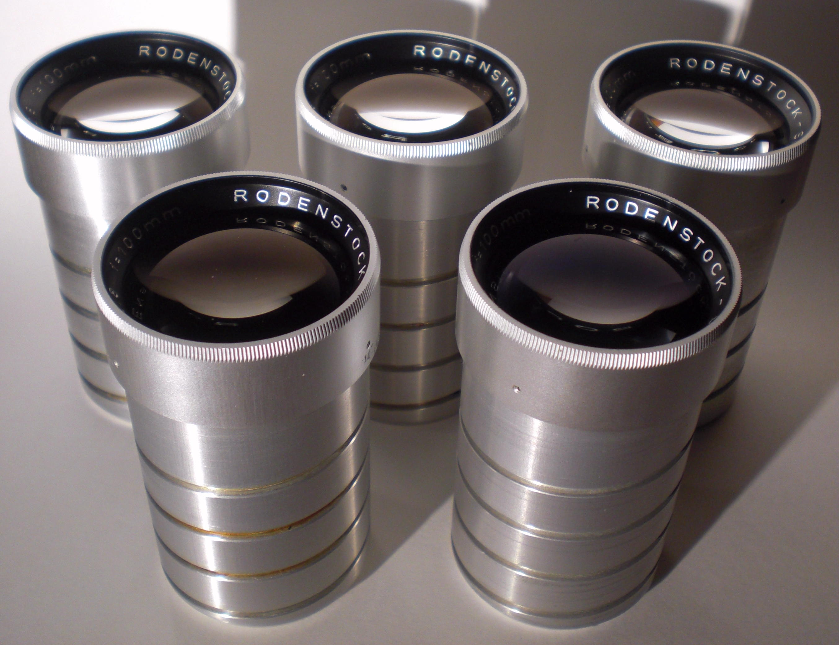 Set of five projection objectives Splendar (2.8/100) by German optics company Rodenstock. They all stem from Braun D-series 35mm slide projectors. The lower right objective has a slightly different coating displaying a distinct bluish color.